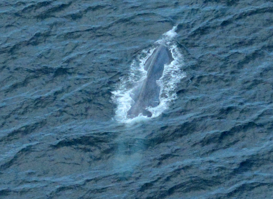 Blue Whale Southern California Coast July 13th 2014 photo D Ramey Logan